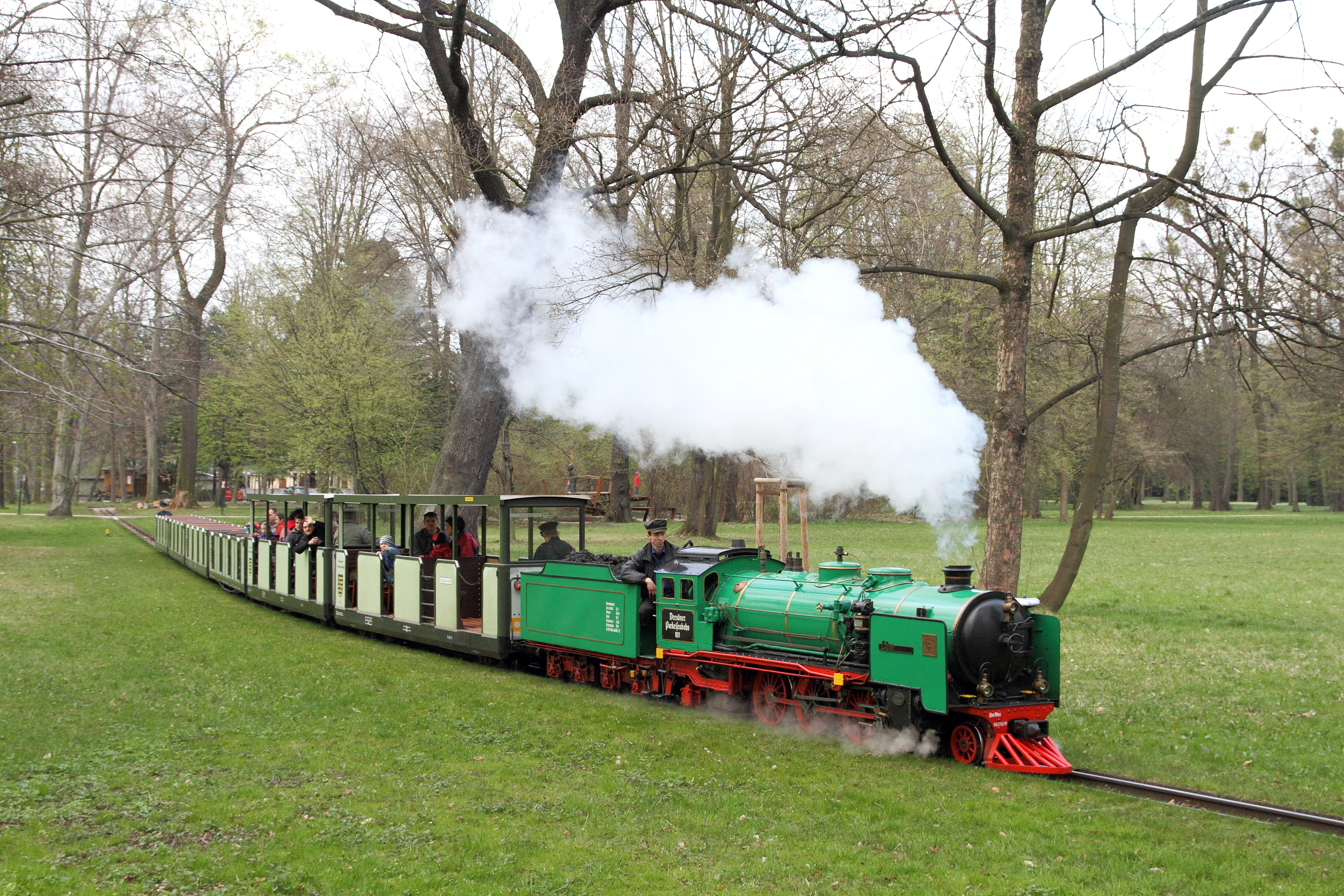 Dresden Parkeisenbahn train with engine 1 after Zoo station.